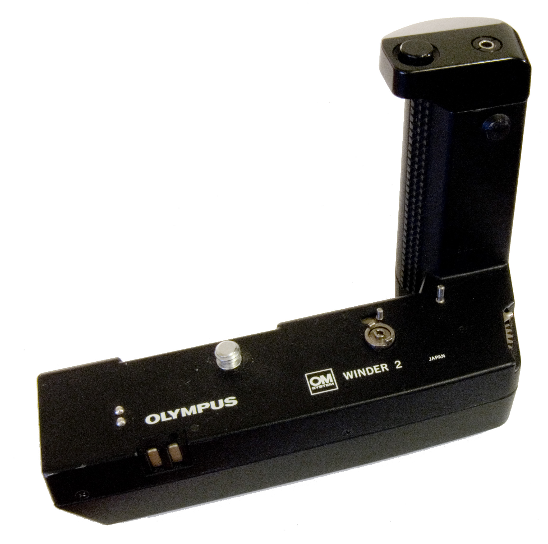 Olympus OM Winder 2, a power winder accessory for Olympus OM series cameras.